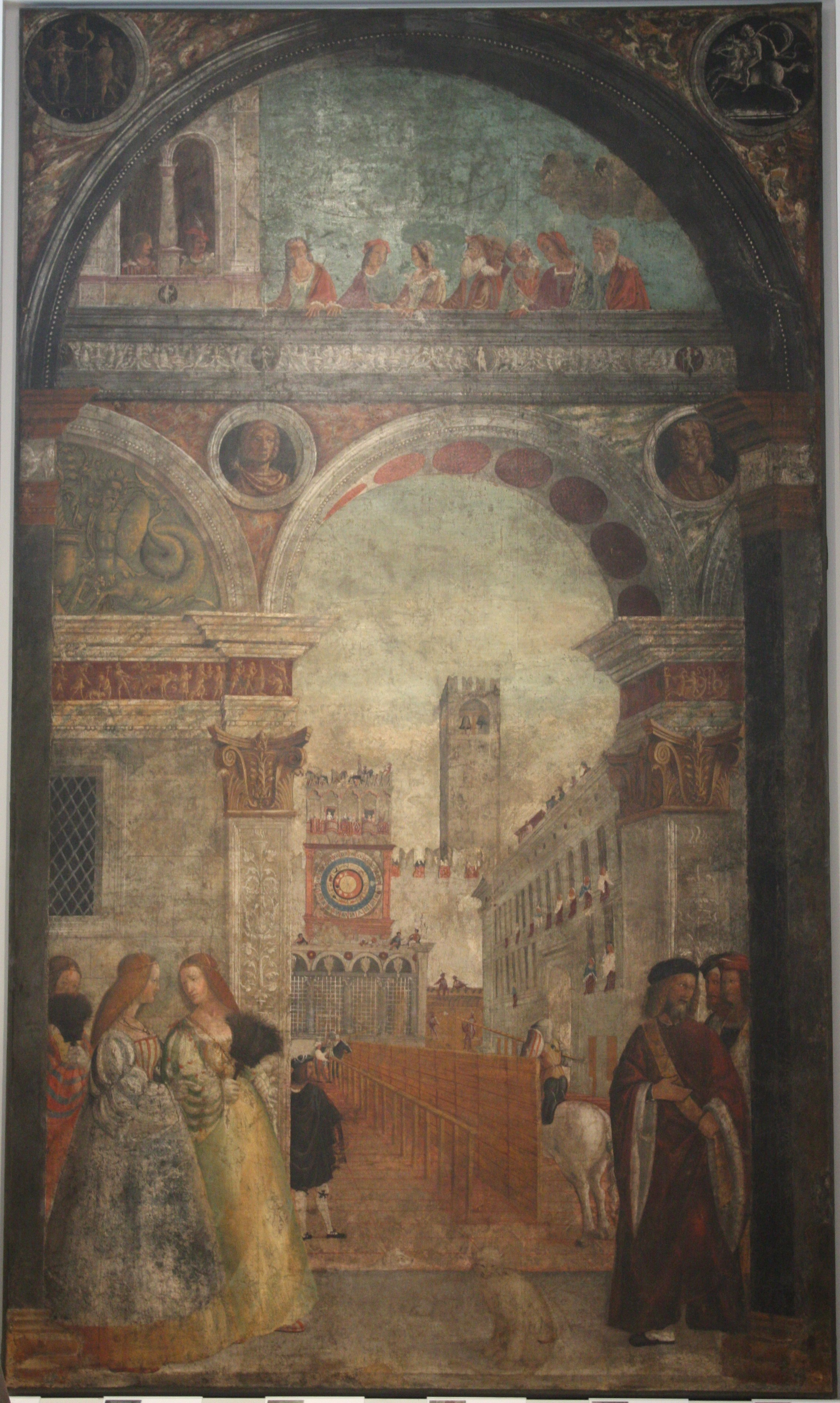 A Tournament at Brescia in the Piazza Maggiore Fresco, about 1511 by Floriano Ferramola (about 1478-1528) This is the largest of a series of nine frescoes painted fr Palazzo Calini in Brescia. This scene is set in the Piazza della Loggia, where a tournament is taking place. Tournaments held in celebration of weddings and state visits were occasions for great pageantry. Italy, Brescia Fresco transferred to canvas Collection ID: 8878-1861 This photo was taken as part of Britain Loves Wikipedia in February 2010 by Valerie McGlinchey.